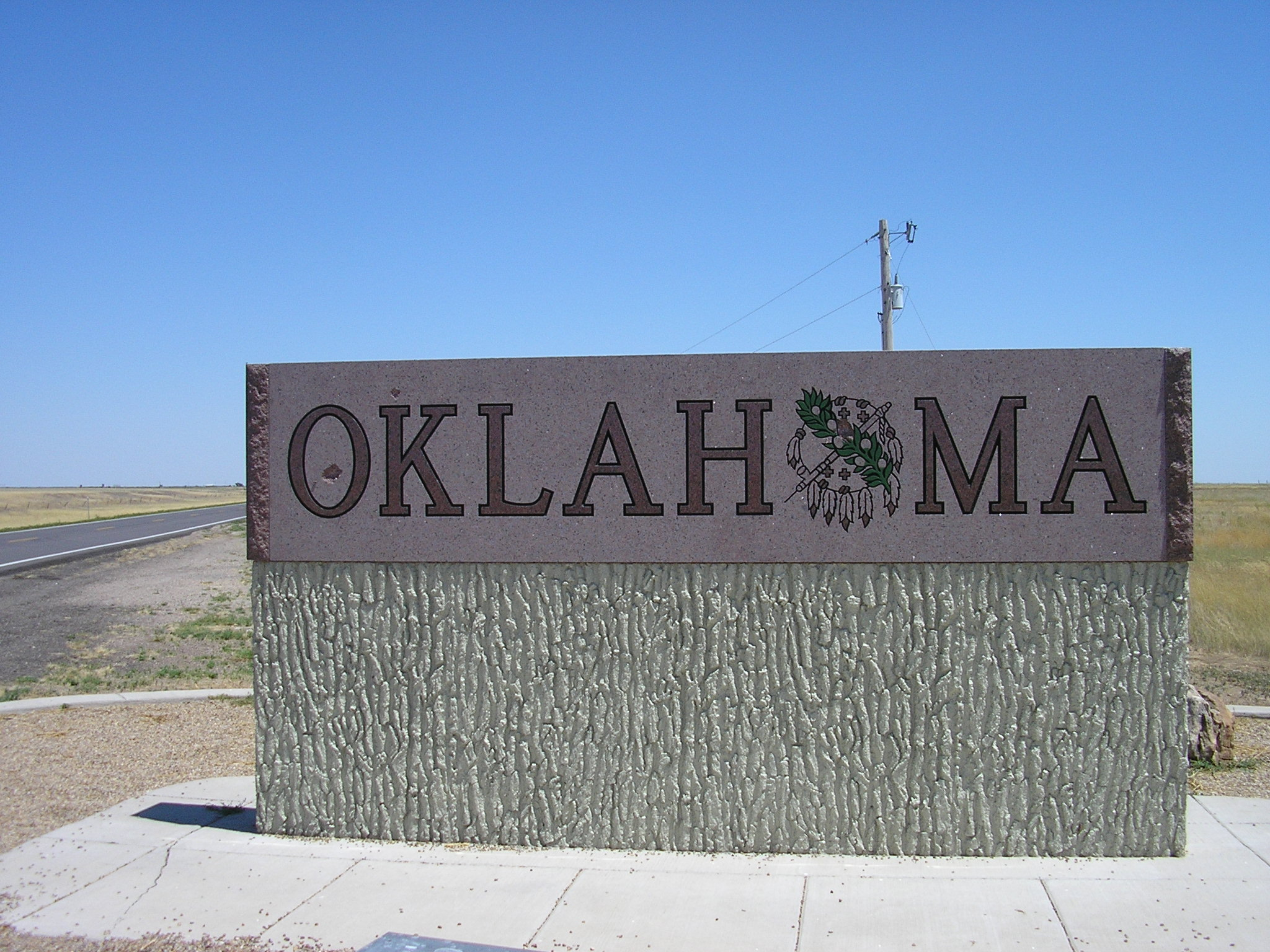 Oklahoma state welcome sign on the west edge of the Oklahoma panhandle.